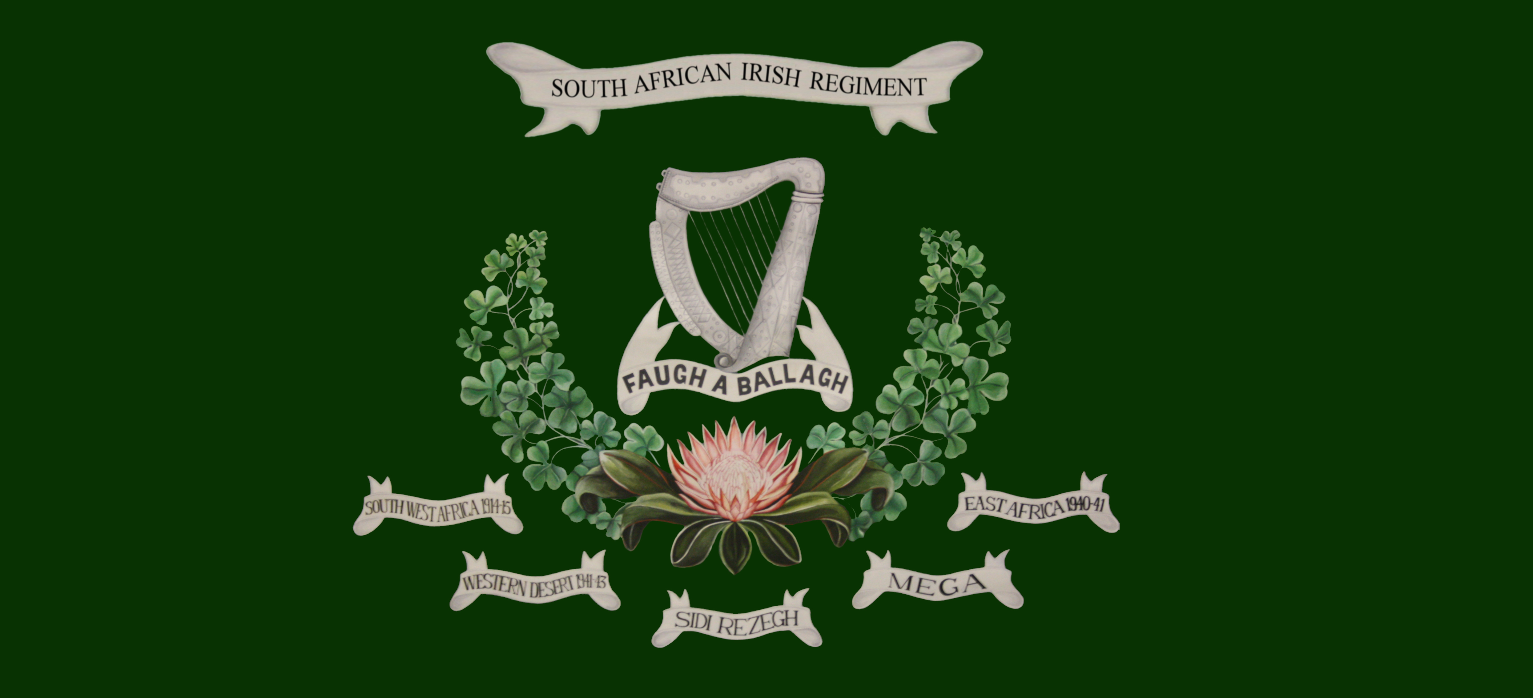 A depiction of the Battle Honours of the South African Irish Regiment as embroidered on their Colours